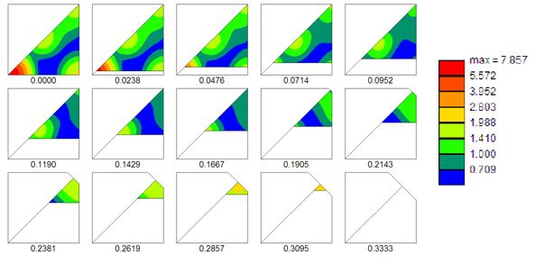 Misorientation function for a selected area of a sample of AA5083 Al-Mg alloy